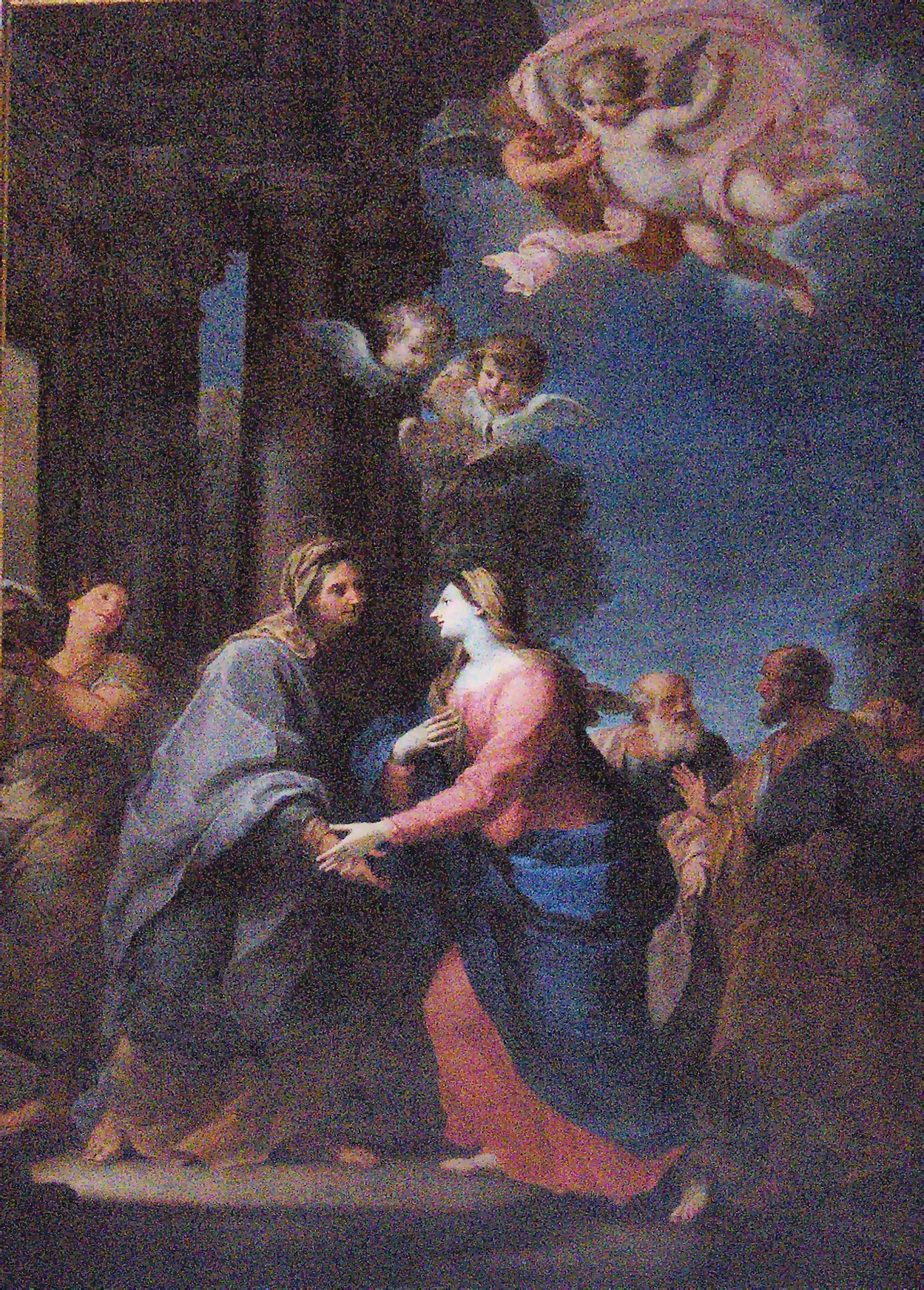 The meeting between the Holy Virgin and Elisabeth